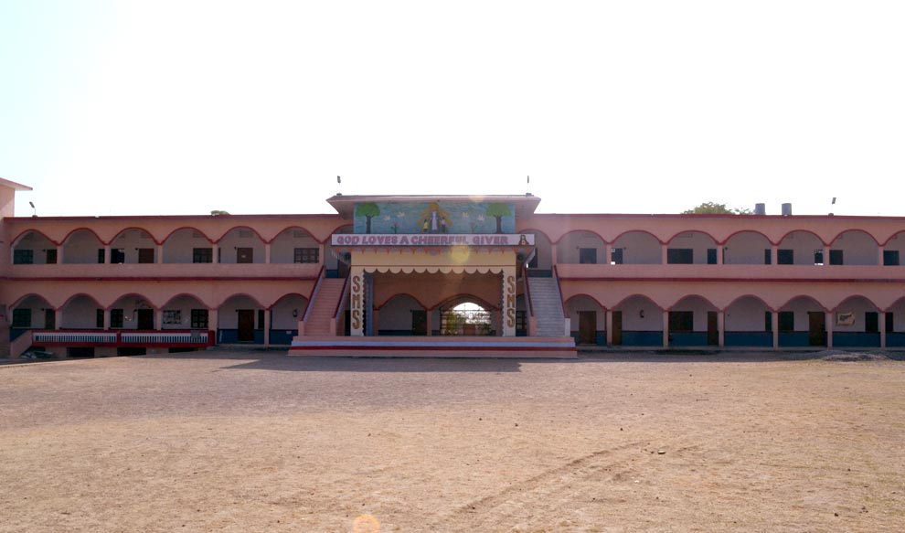 GURSARAI